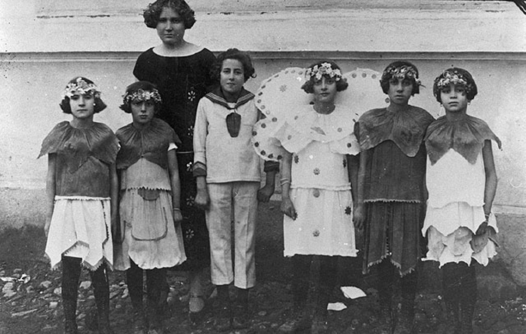 History of Jews in Bitola (Monastir)